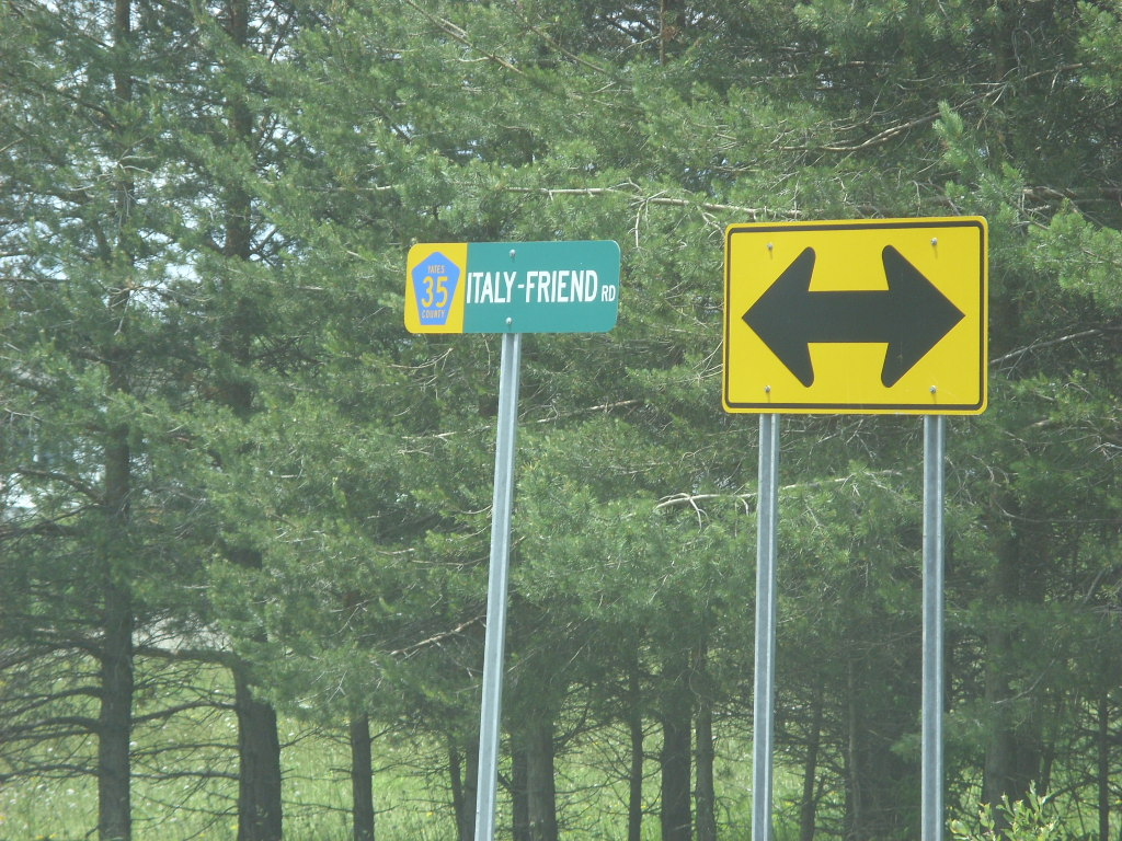 Yates County Route 35 signage in New York.